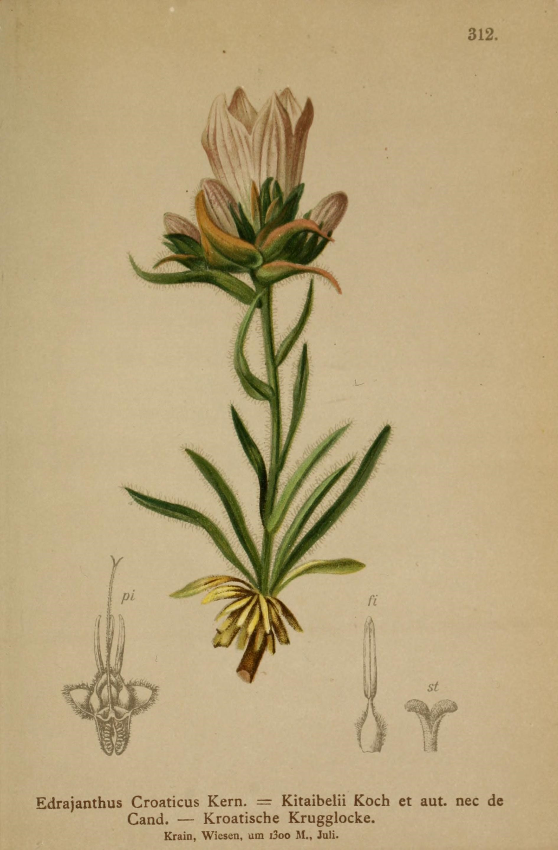 312. st Edrajanthus Croaticus Kern. = Kitaibelii Koch et aut. nee de Cand. — Kroatische Krugglocke. Krain, Wiesen, um i3oo AI., Juli.